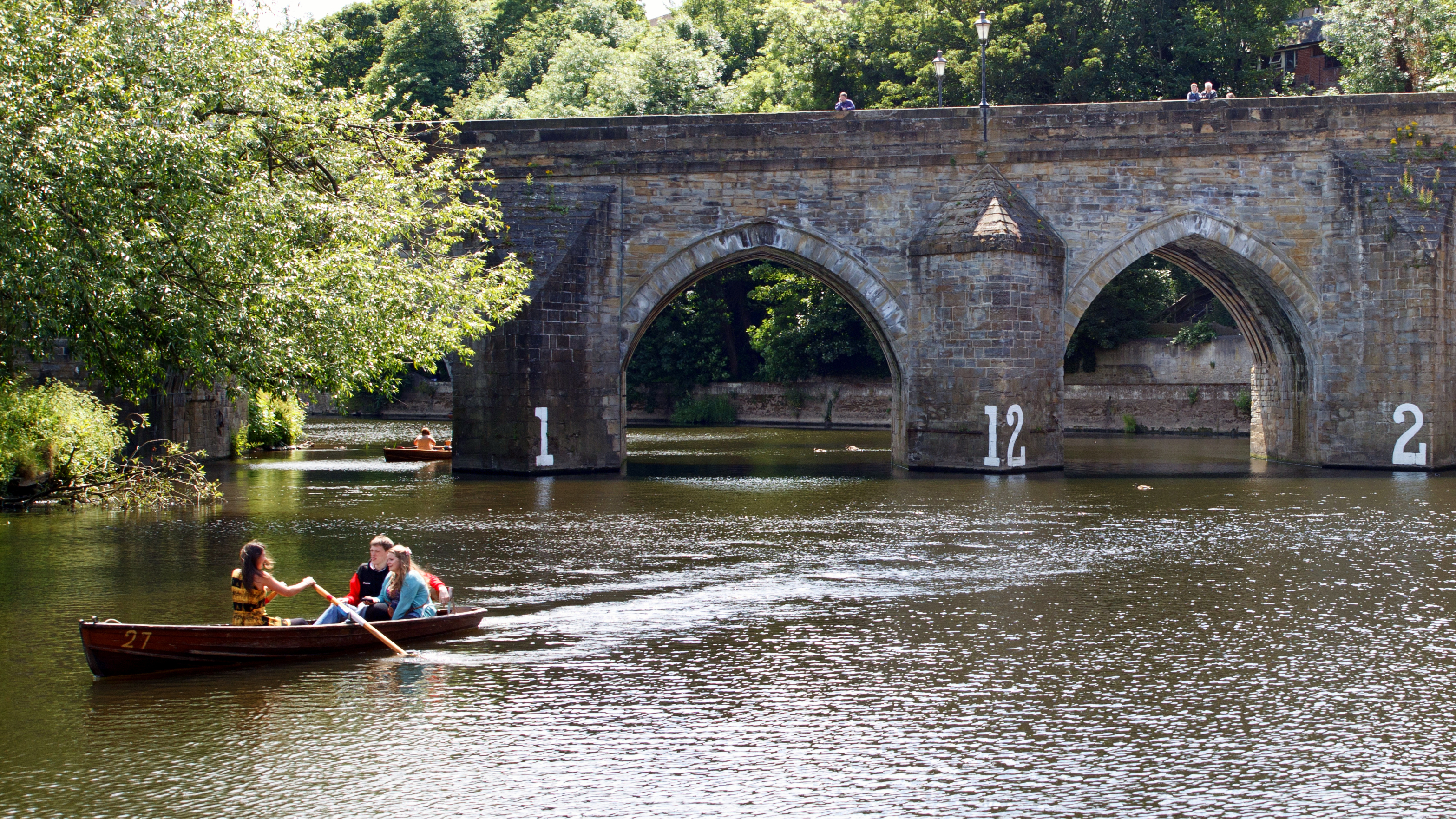 Rowing for pleasure under Elvet Bridge in Durham